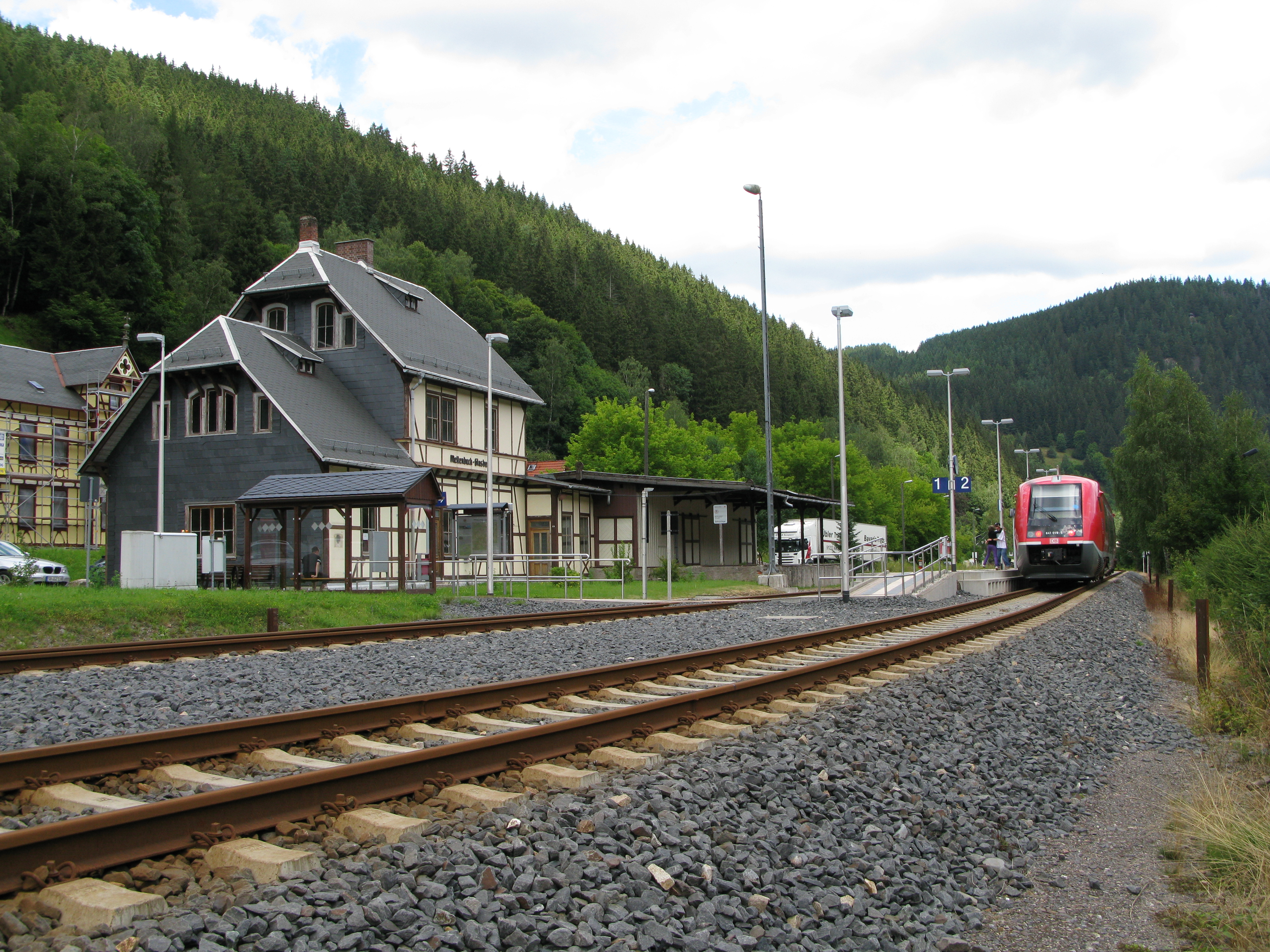 Station Mellenbach-Glasbach